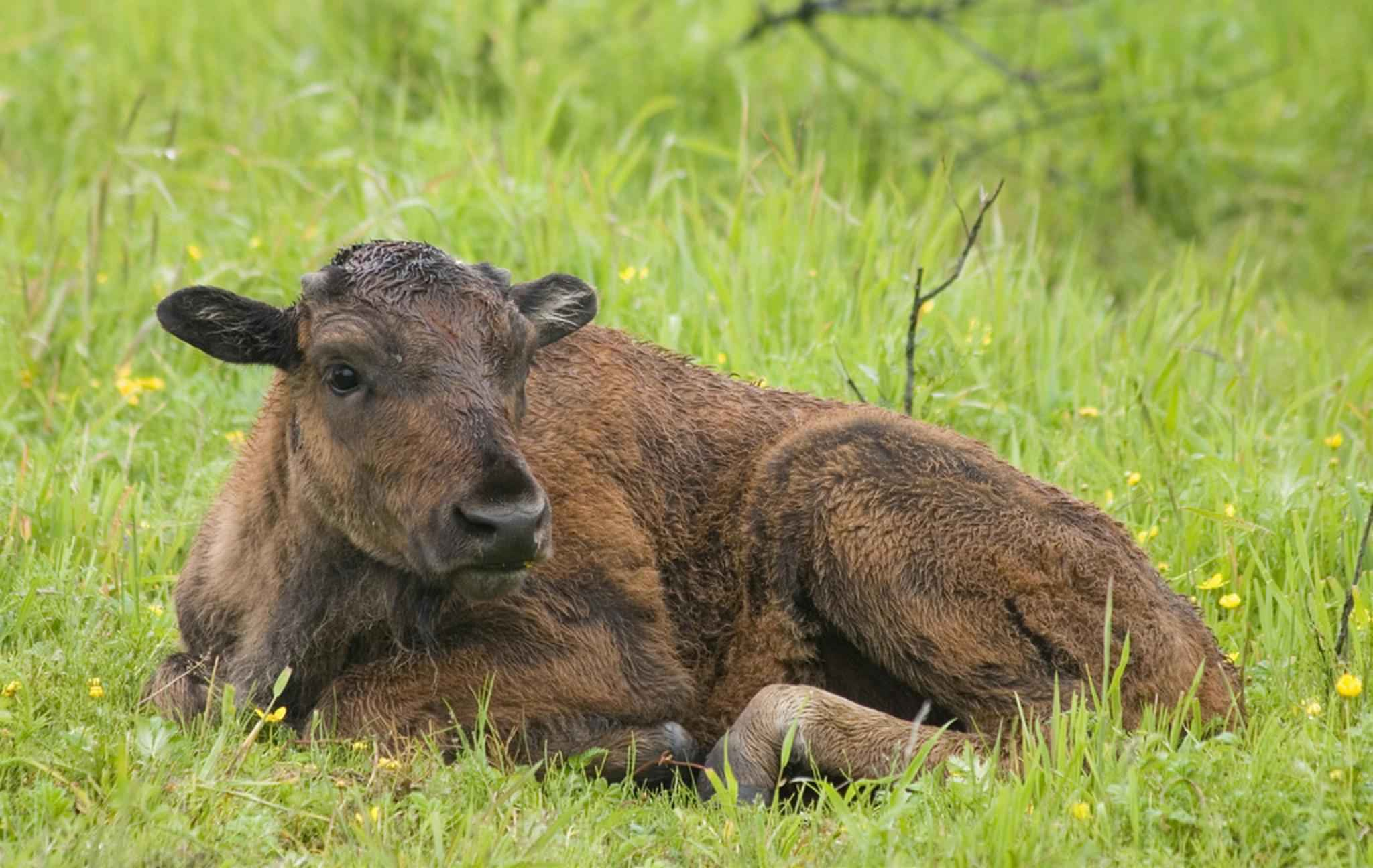 Image title: Wood buffalo or mountain buffalo calf lying on the grass bison bison athabascae Image from Public domain images website